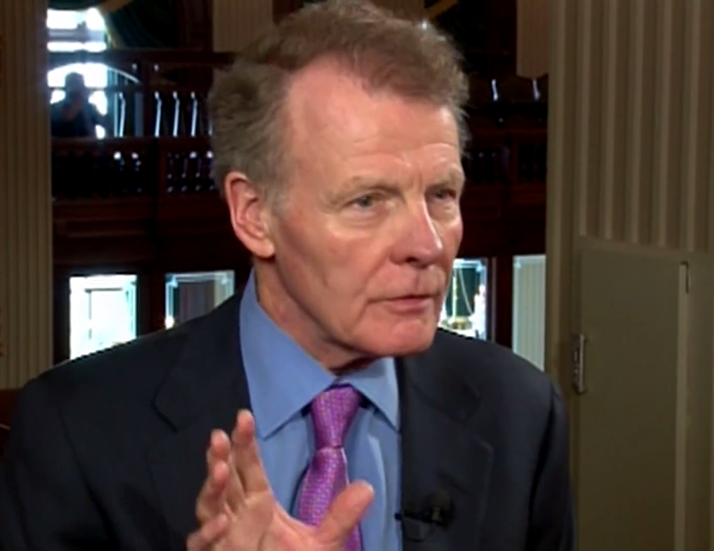 Michael Madigan in an interview at the end of the Spring 2013 session